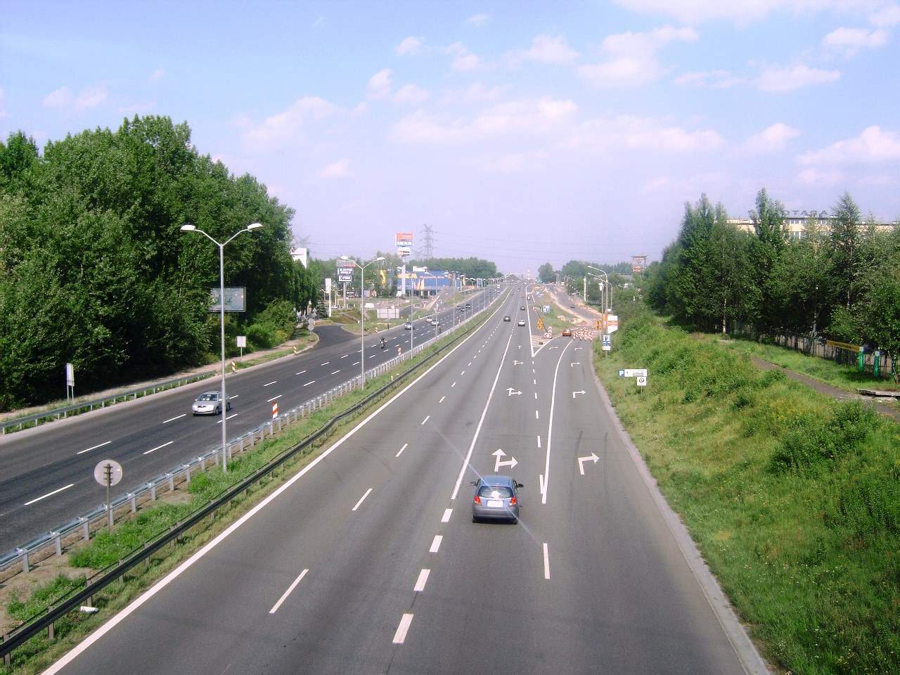 Rozdzienskiego Street in Dąbrówka Mała in Katowice, in Poland.